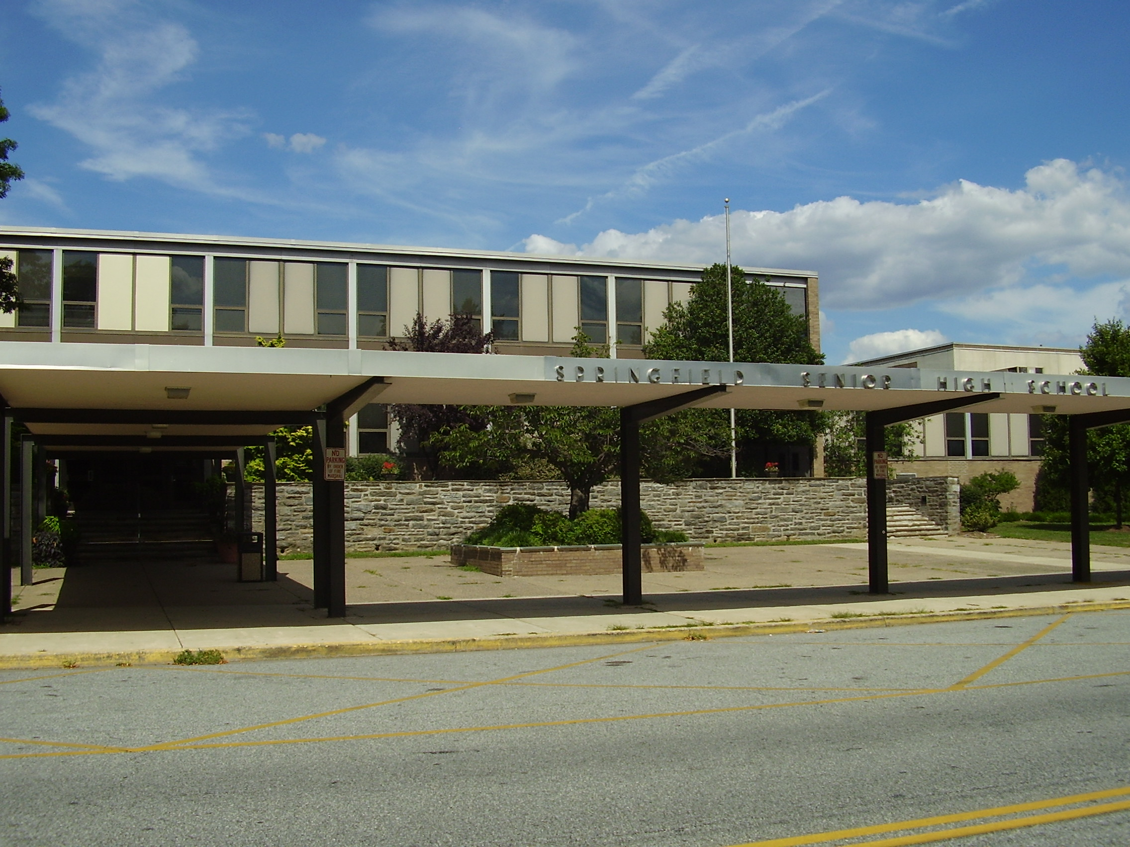 Springfield High School of Springfield School District, Springfield Township, Delaware County, Pennsylvania